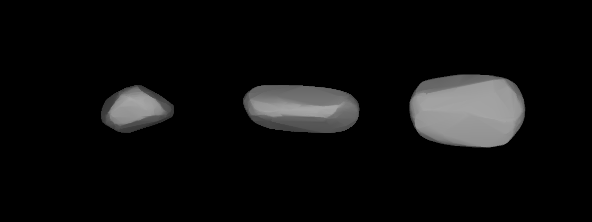 A three-dimensional model of 685 Hermia that was computed using light curve inversion techniques.